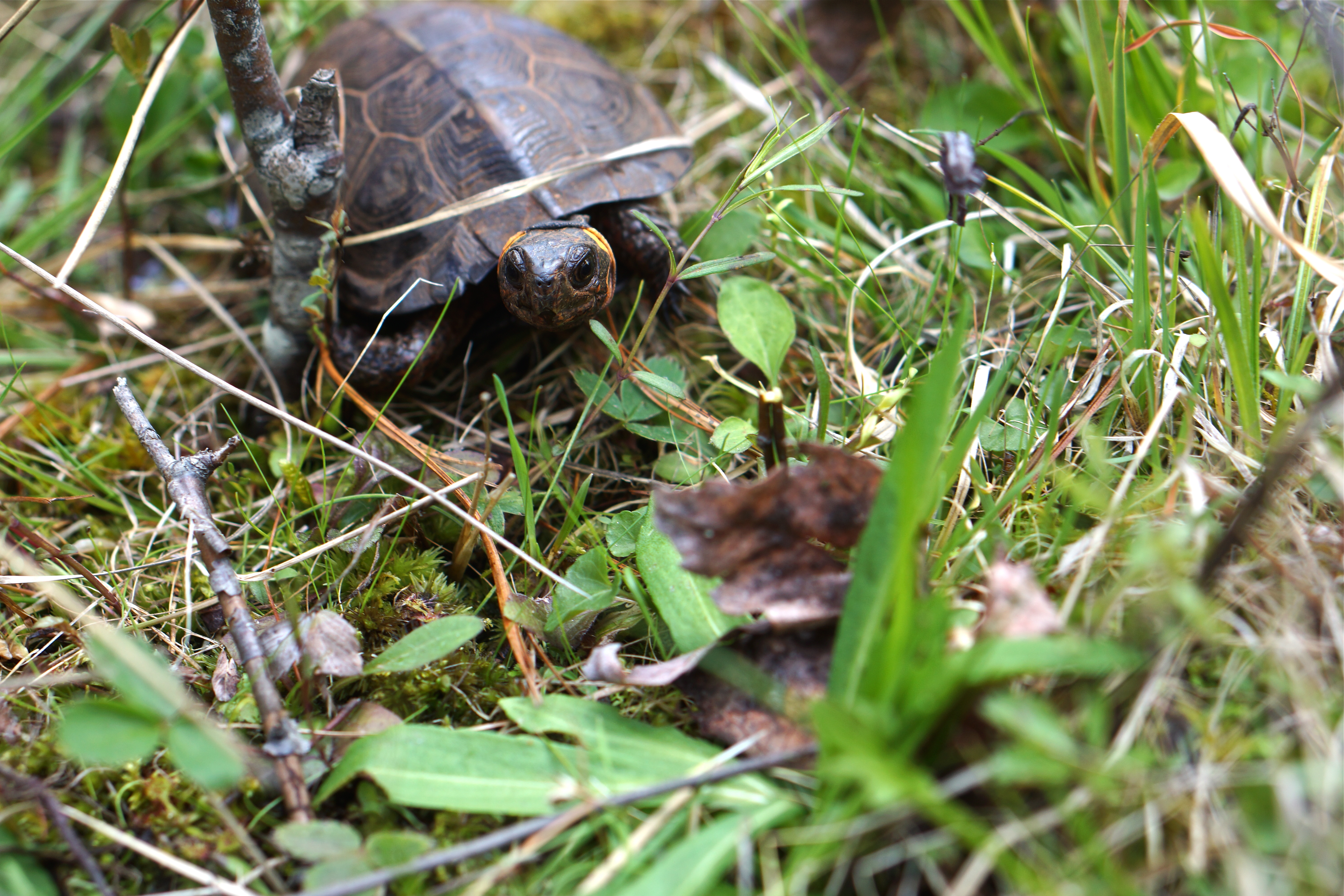 Thanks to the donation of a conservation easement by The Nature Conservancy, Mountain Bogs National Wildlife Refuge was established in April, 2015. Bog conservation partners gathered in North Carolina’s Ashe County to mark the establishment. Service Deputy Director Jim Kurth spoke, as did N.C. Wildlife Resources Commission Deputy Director Mallory Martin, The Nature Conservancy State Director Katherine Skinner, and Carolina Mountain Land Conservancy Executive Director Kieran Roe.